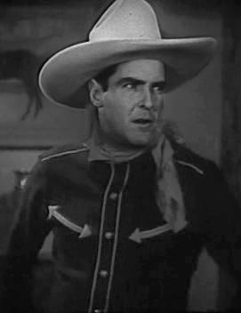 Cropped screenshot of Ken Maynard in In Old Santa Fe (1934)